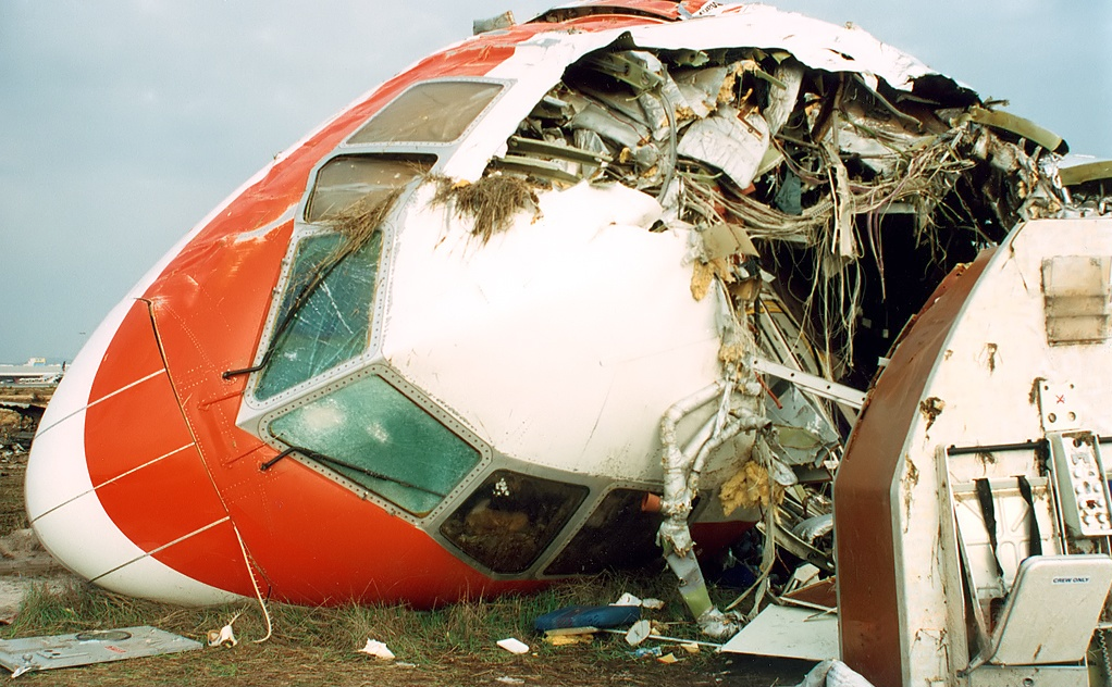 Wreckage of PH-MBN, a Martinair McDonnell Douglas DC-10-30CF, at Faro Airport (FAO / LPFR).